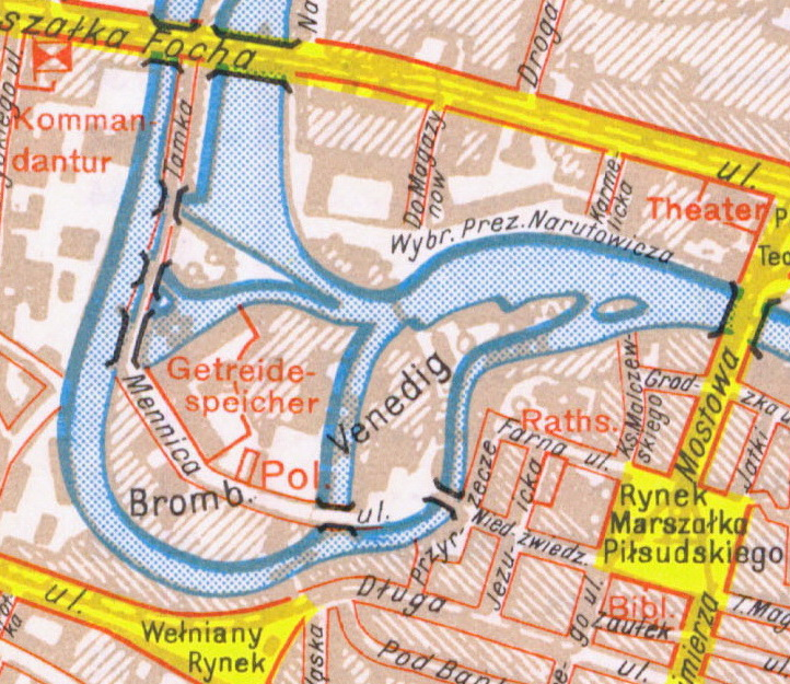 Zoom Wyspa mlynska (Bydgoszcz) 1939